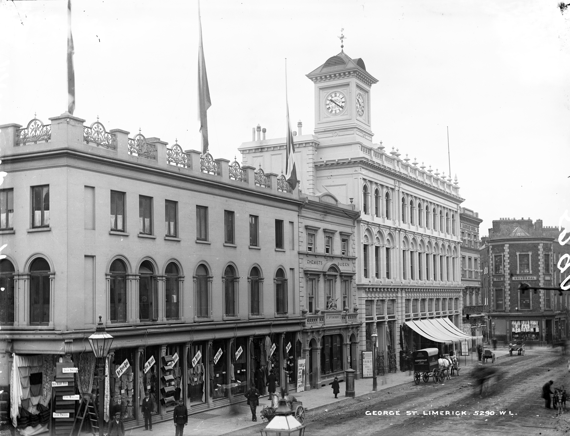 Thanks to elainsor for the information that George Street as was, is: "now O'Connell Street, the building in the foreground is where Roches Stores was until recently . The building with the clock is where Penney's now stands." And bringing us right up to date is info from DannyM8 that Roches Stores is now Debenhams. Date: Circa 1890? NLI Ref.: L_ROY_05290